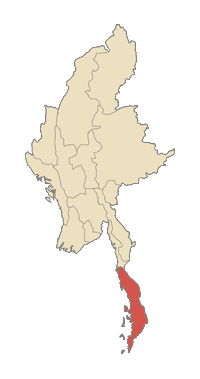 Taninthayi division in Myanmar